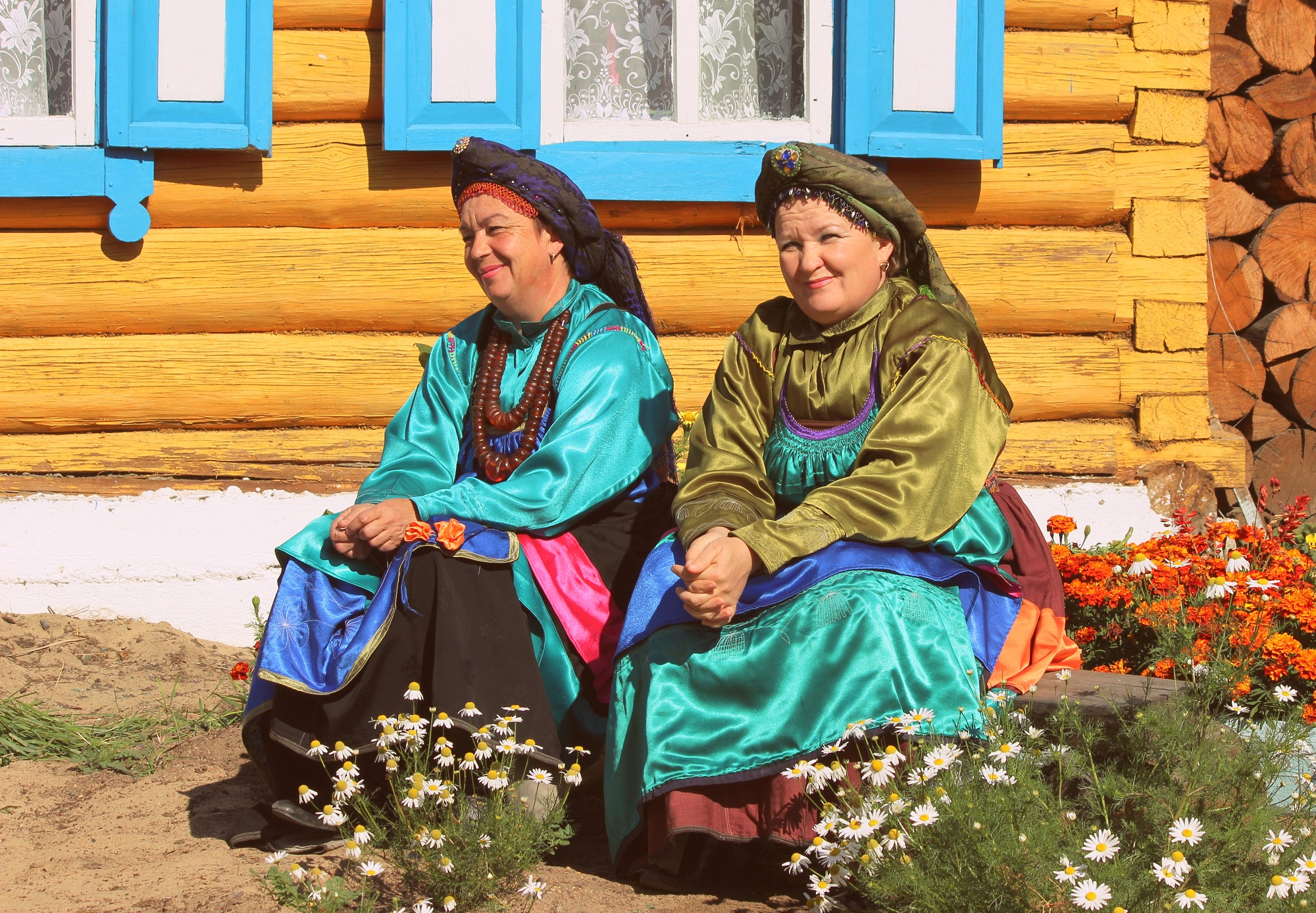 Old women in tradional clothing in Tarbagatay, Tarbagataysky District, Republic of Buryatia